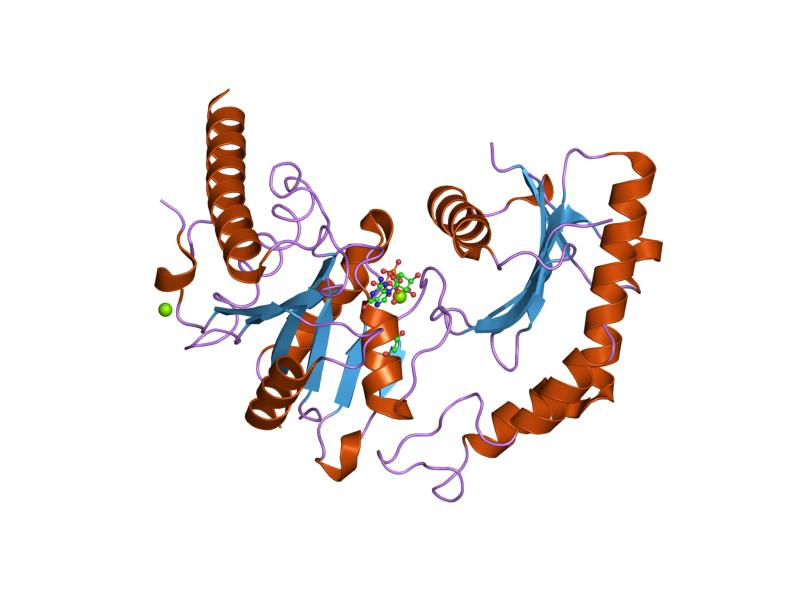 Cartoon representation of the molecular structure of protein registered with 1nrj code.